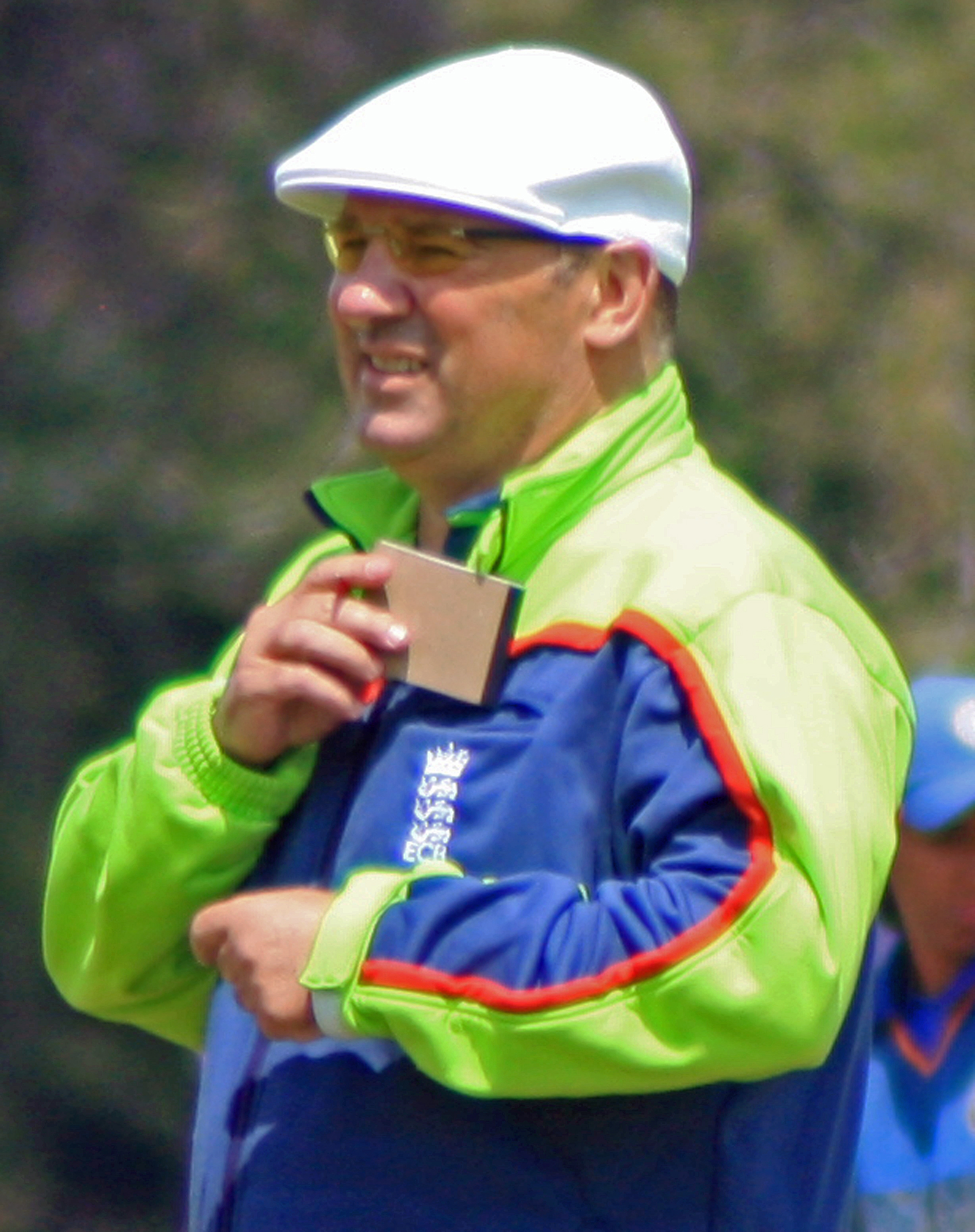 Mark Benson on the field during the fourth ODI between England women and India at Boscawen Park, Truro.